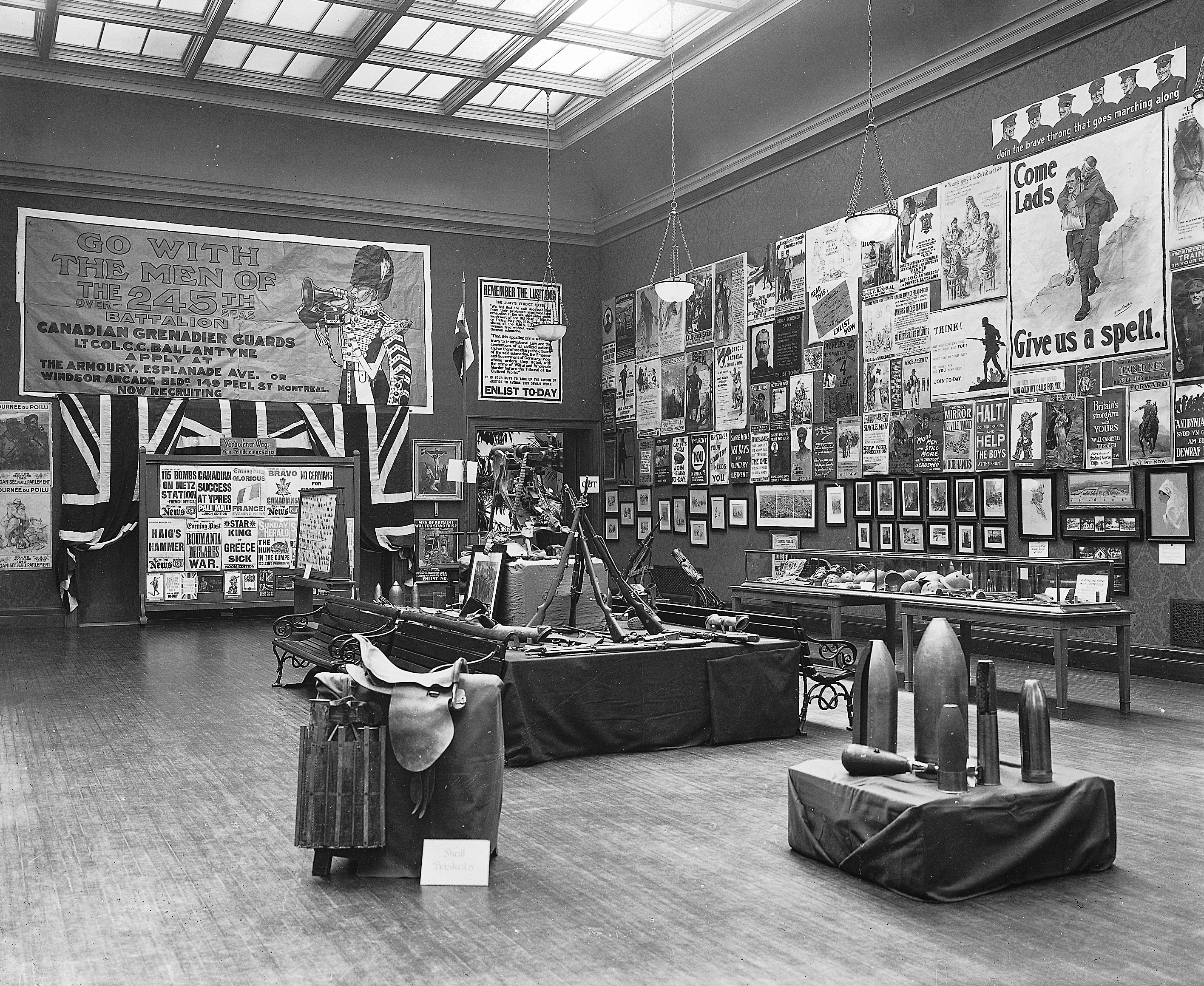 Recruiting Exhibition, possibly held at the Montreal Museum of Fine Arts, Montreal, Quebec, Canada.